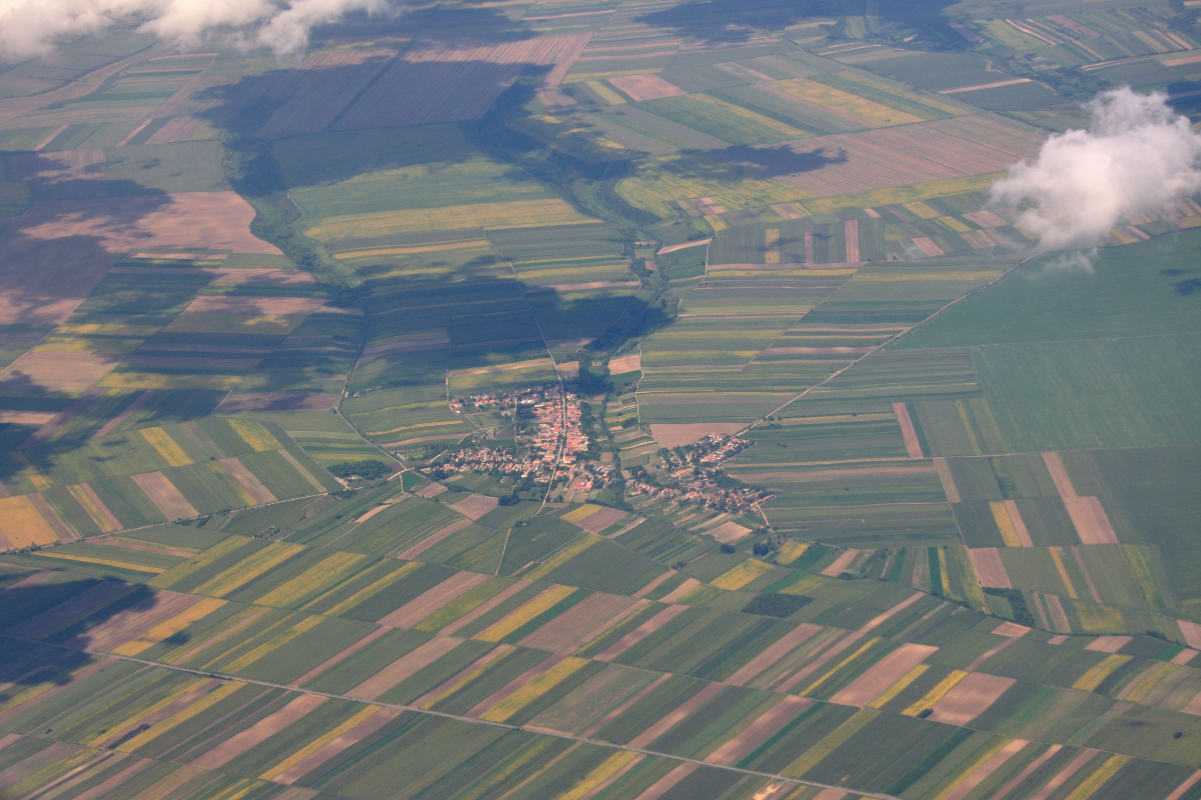 Serbia, aerial photograph of Mali Radinci.